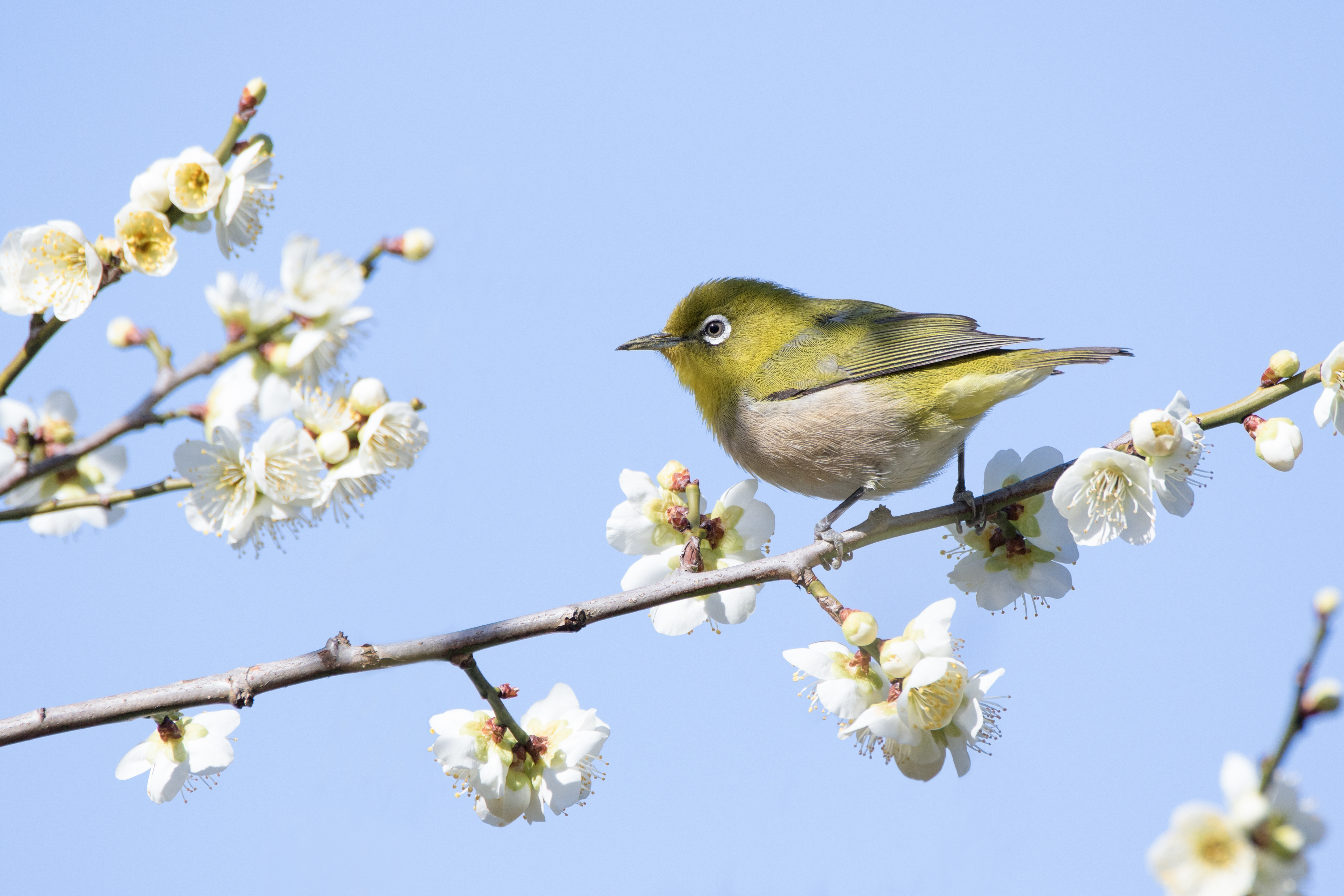 Japanese white-eye in Sakai, Osaka.